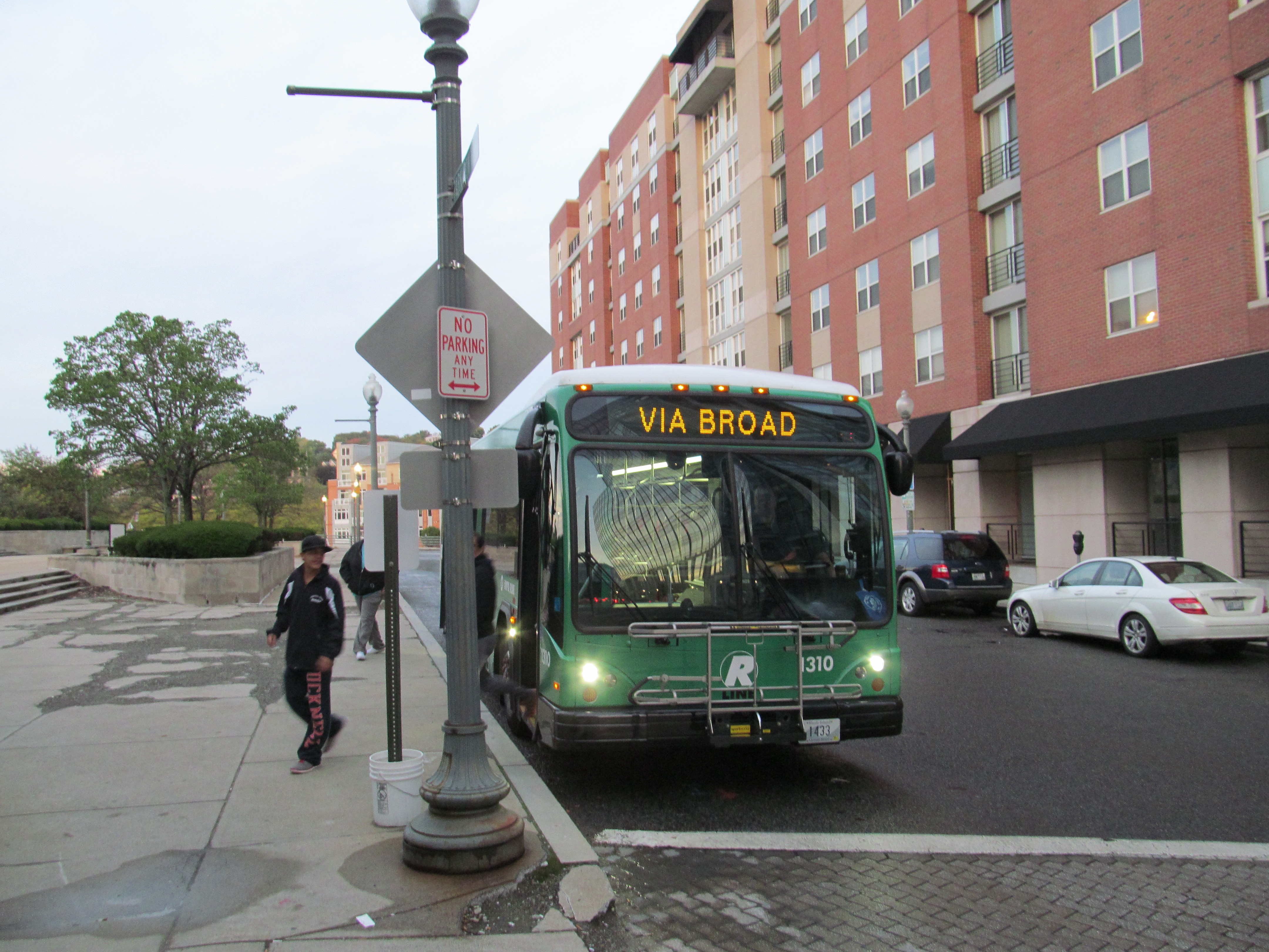 A RIPTA R-Line bus on Park Row West at the Providence Station stop